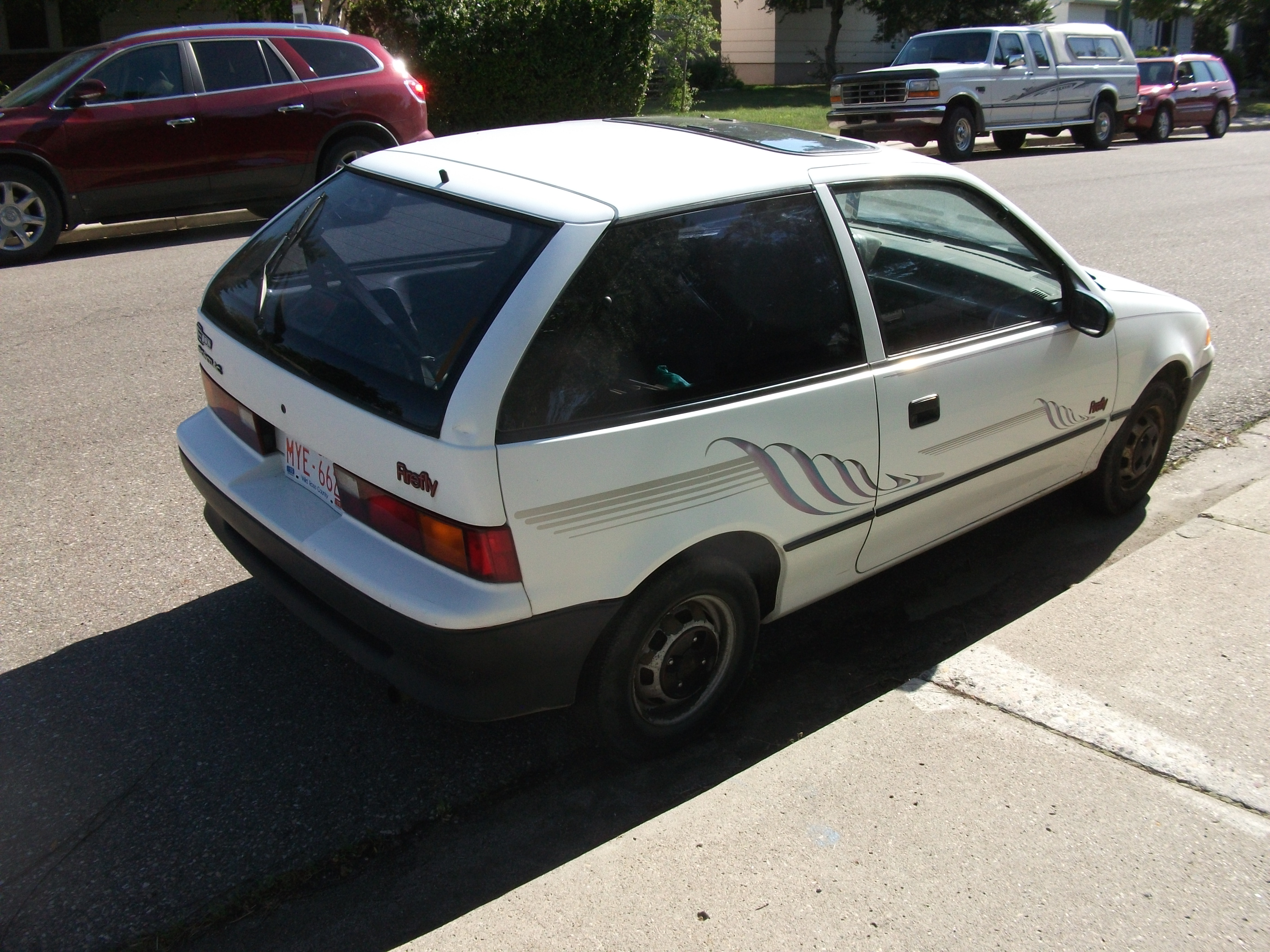 Pontiac Firefly - Canadian variant of the Suzuki Swift/Geo Metro/Chevrolet Sprint/etc